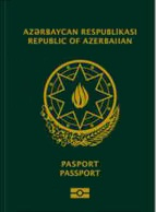 more clear version of the image